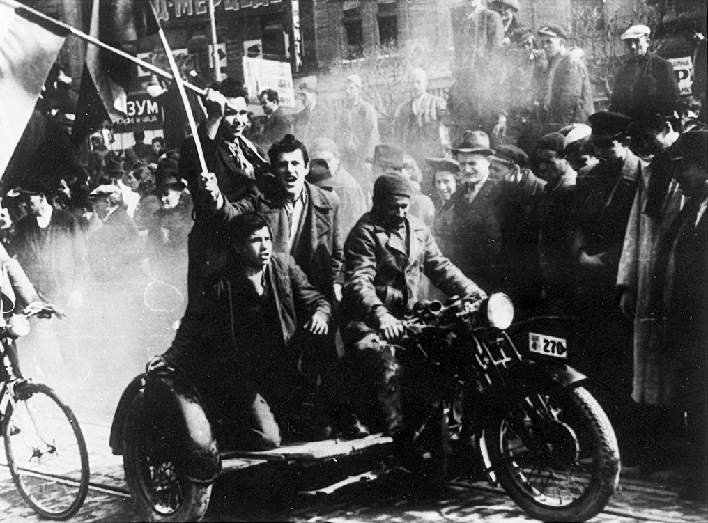 People of Belgrade demonstrate their support for break-up with the Tripartite Pact. "Better in a grave then a slave".Srpskohrvatski / српскохрватски: Demonstracije u Beogradu 27. marta 1941